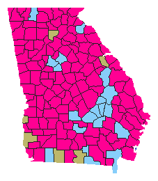 Georgia Lt. Gubernatorial Republican primary county map